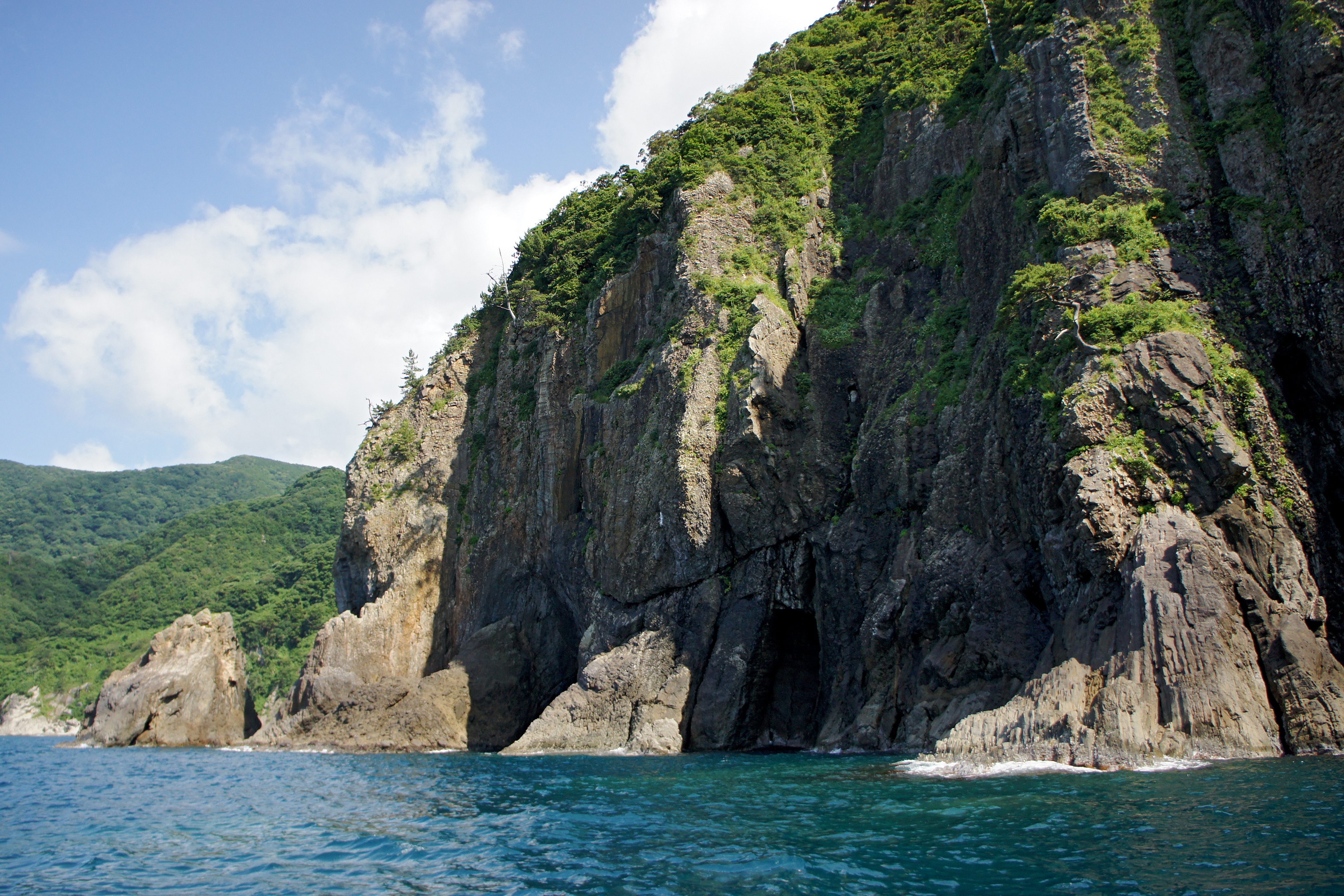 Shitaara-domon of Tajima mihonoura in Shinonsen, Hyogo prefecture, Japan